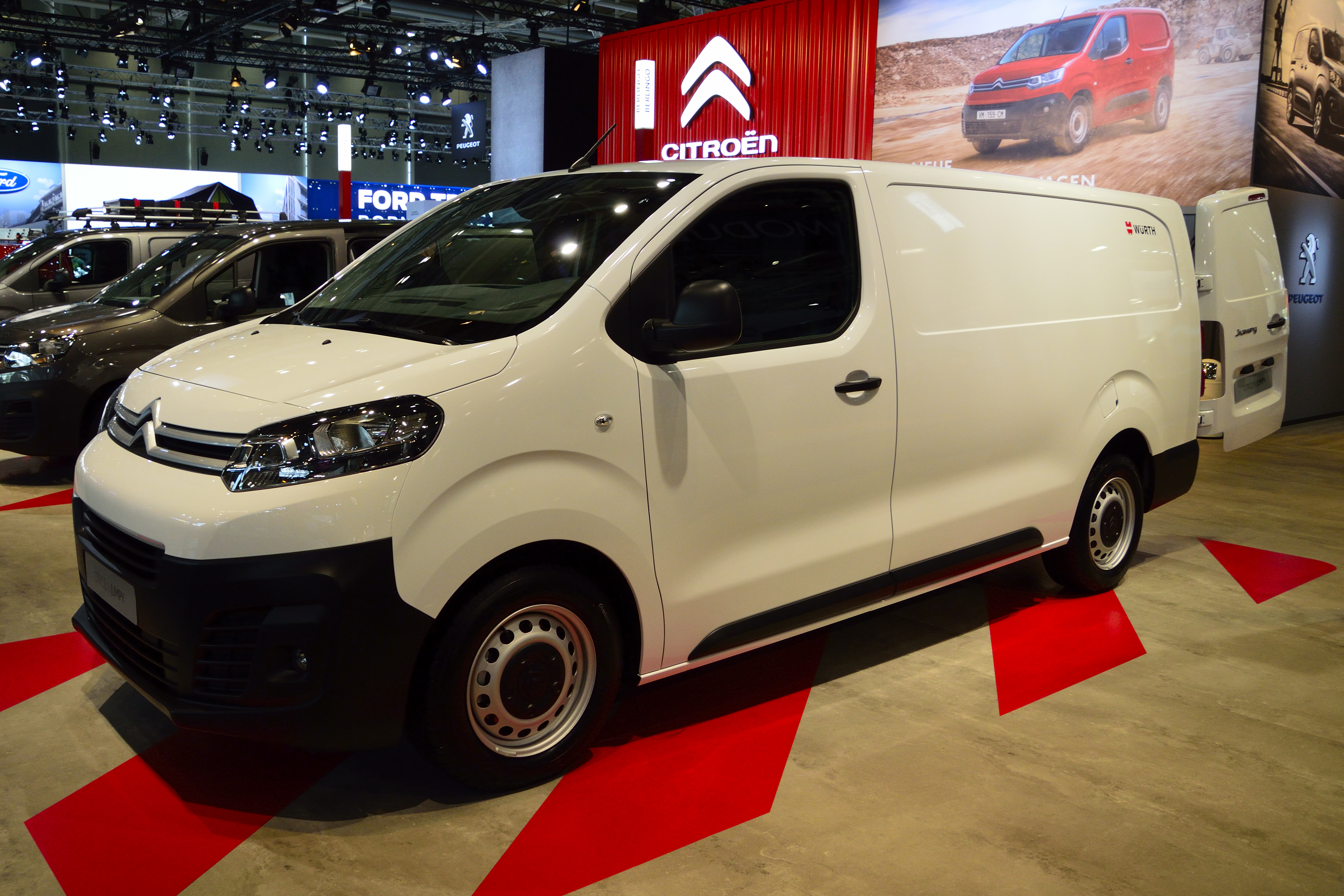 Citroen Jumpy, seen at IAA 2018. If you need a raw image format, you may leave a message: here.